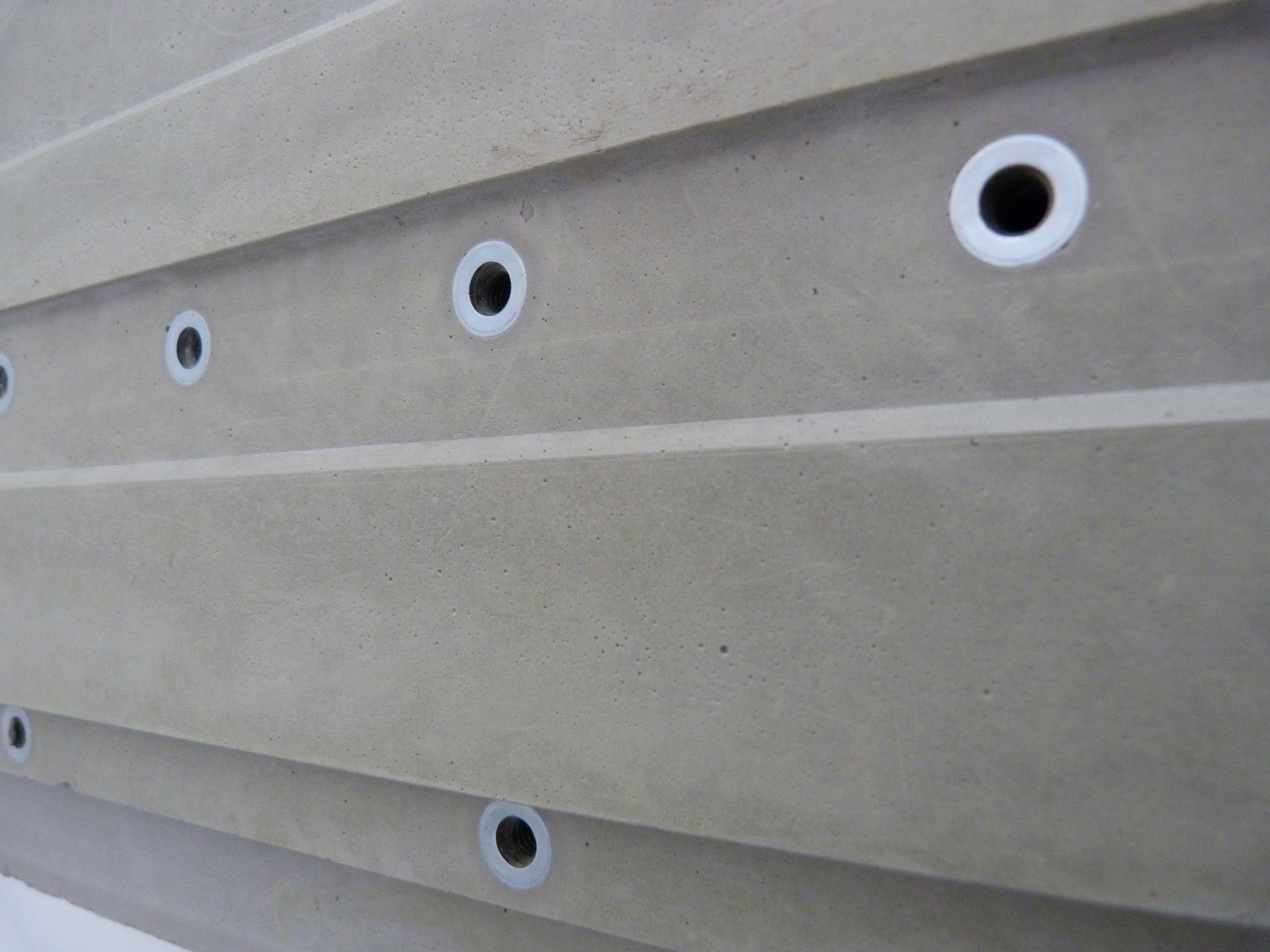 Surface of a machine element of UHPC with precision out of the mould